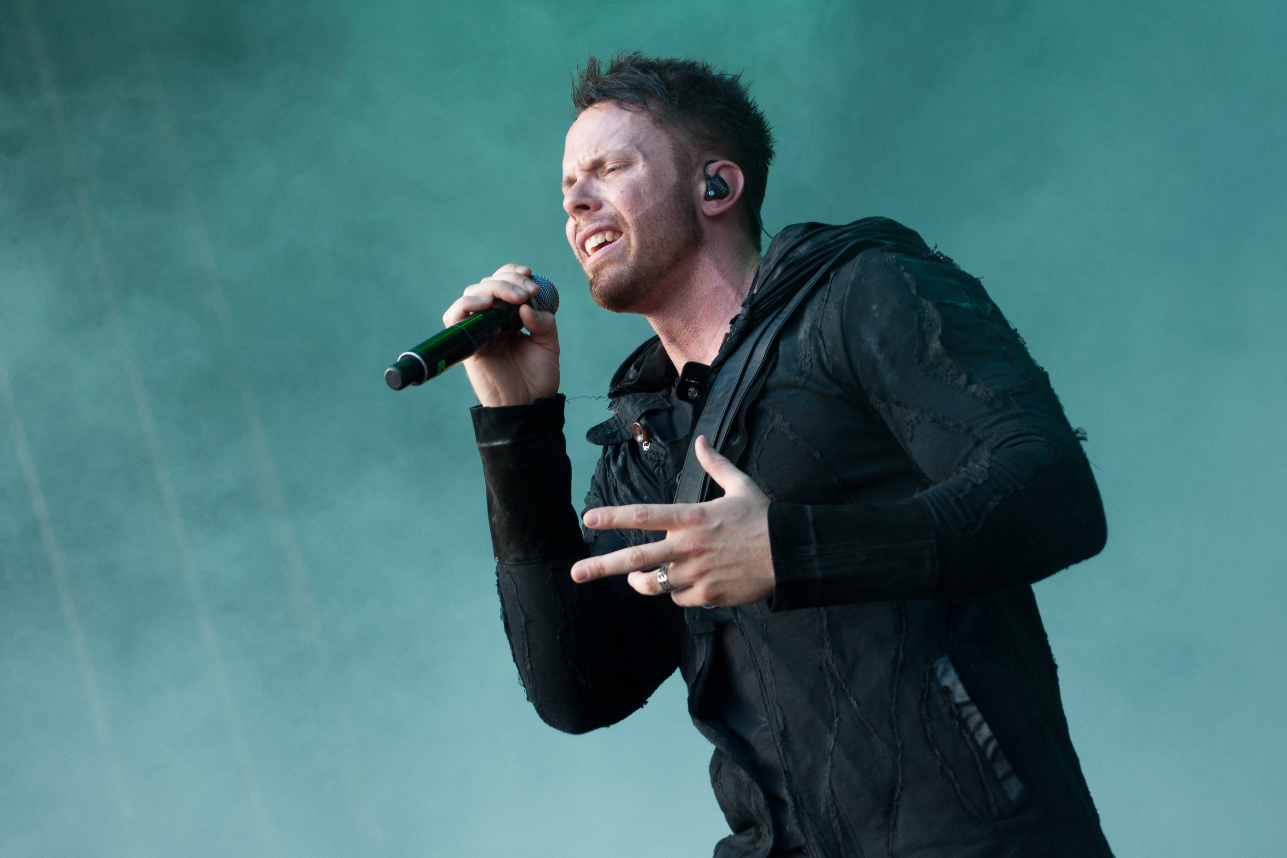 Tommy Karevik Kamelot - Masters of Rock 2018, Vizovice, Czech Republic - thanks to Pragokoncert